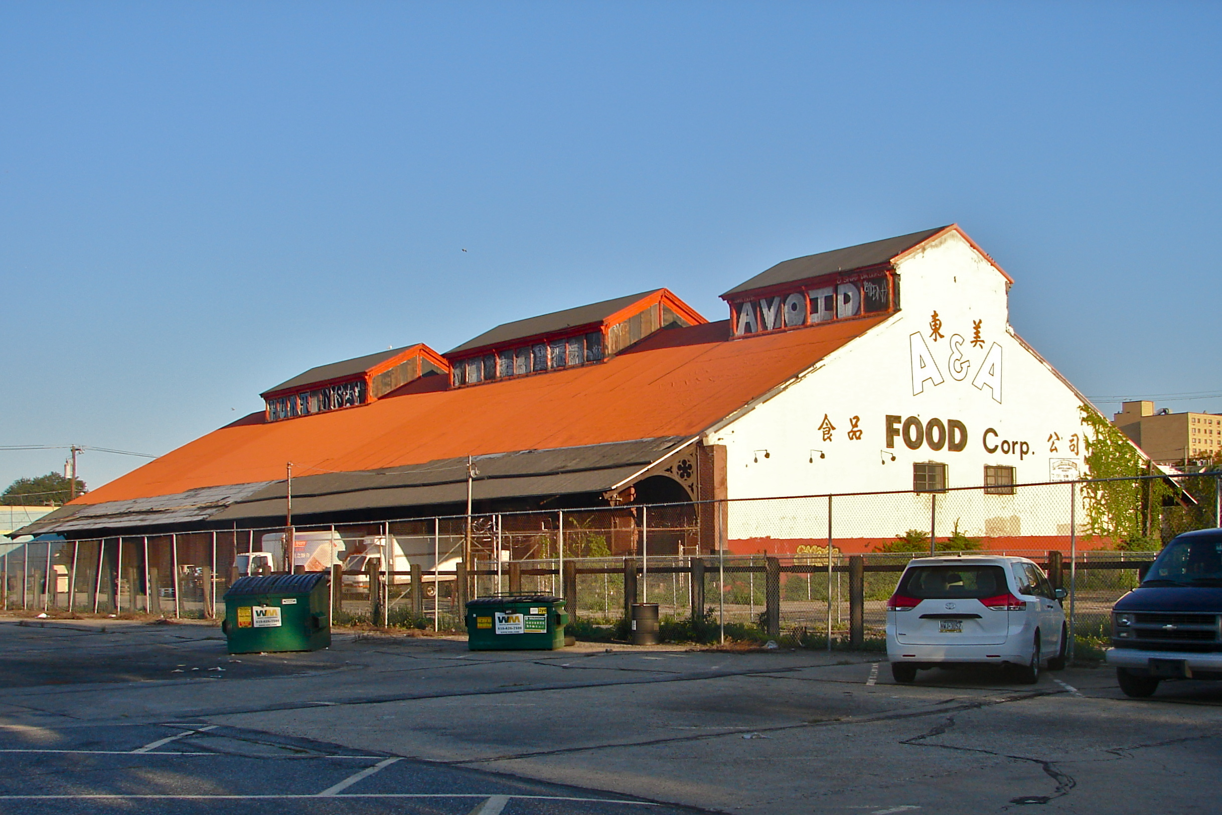 Philadelphia, Wilmington and Baltimore Railroad Freight Shed on the NRHP since September 8, 2011. At 1001 South 15th Street (viewed here from just west of Broad) in Southwest Center City, Philadelphia, Pennsylvania. Now A&A International Foods